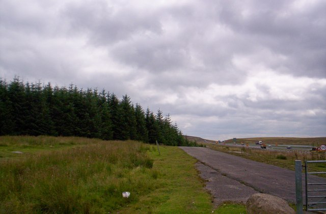 Shap Summit A small area of managed woodland next to junction 39 of the M6